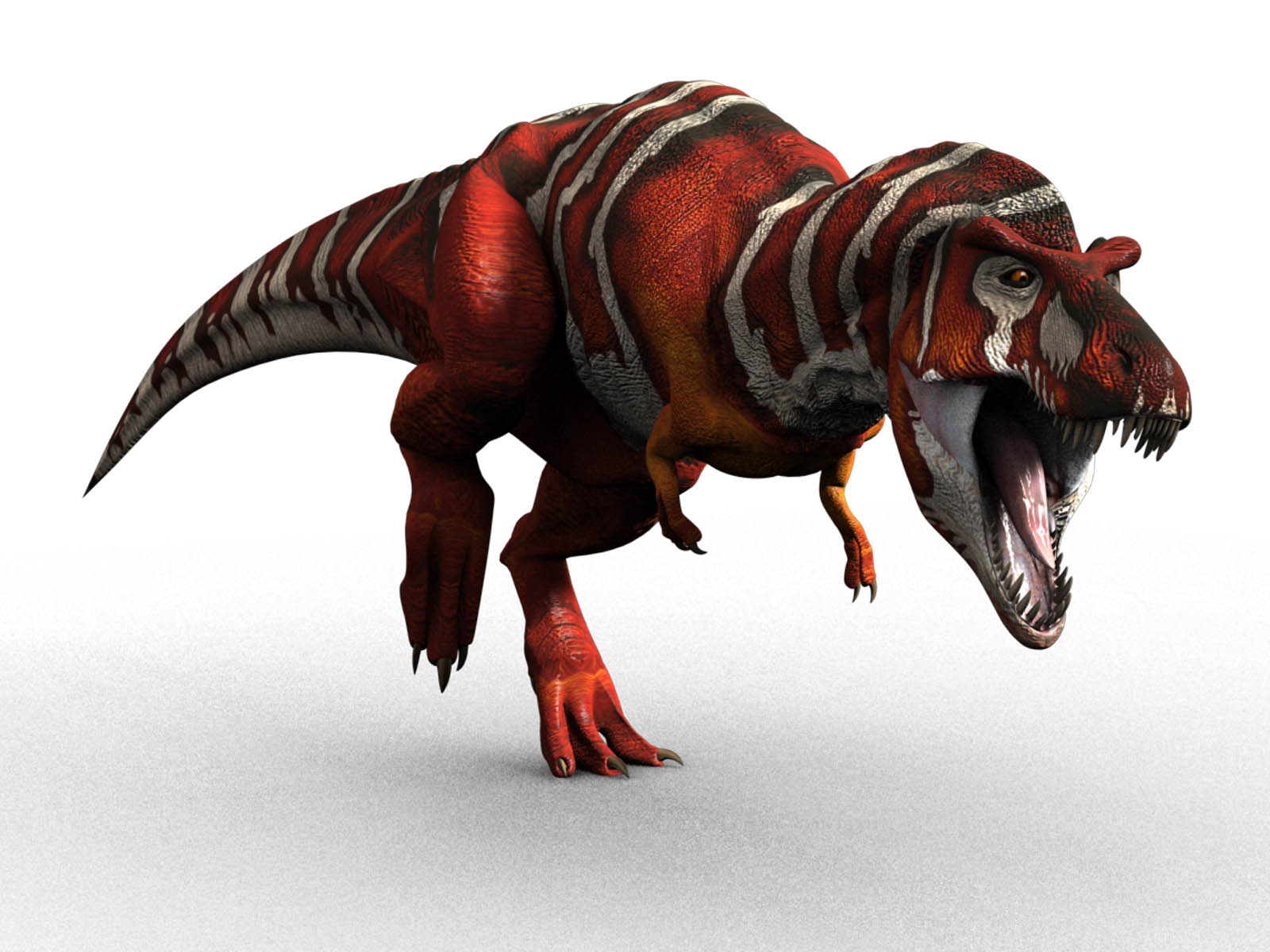 Trex charging